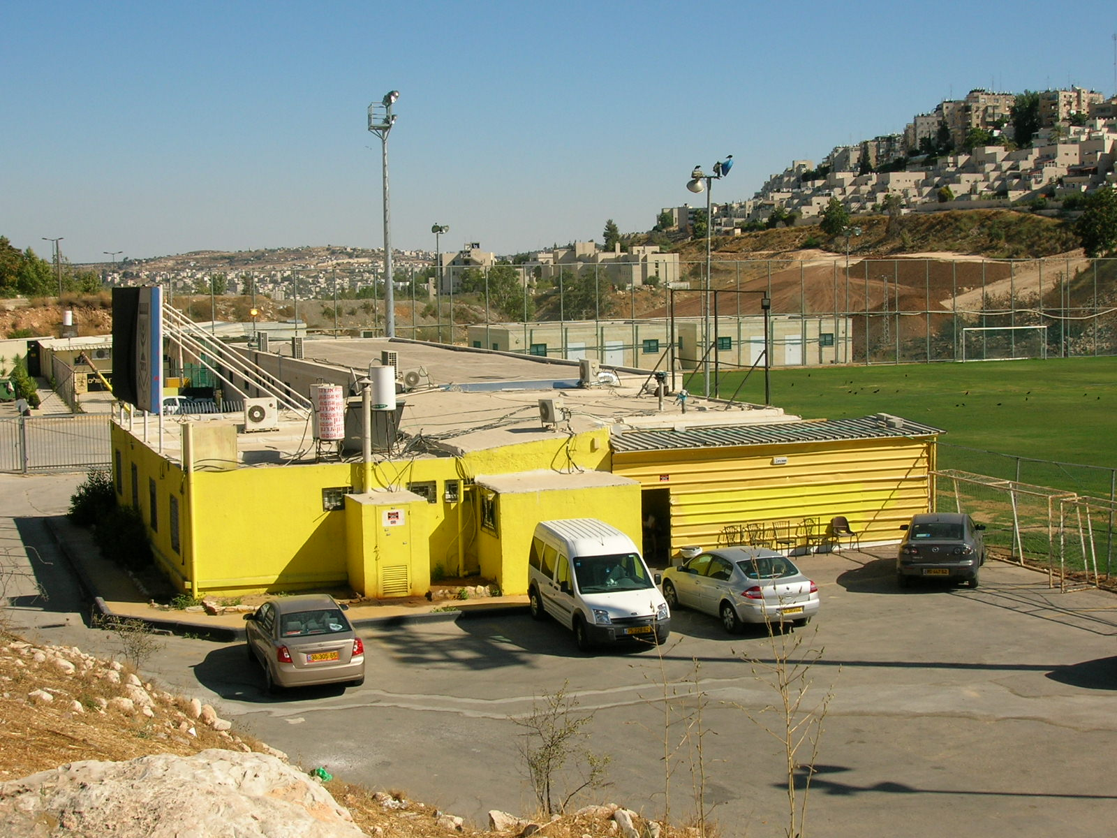 Bayit VeGan Complex, Jerusalem